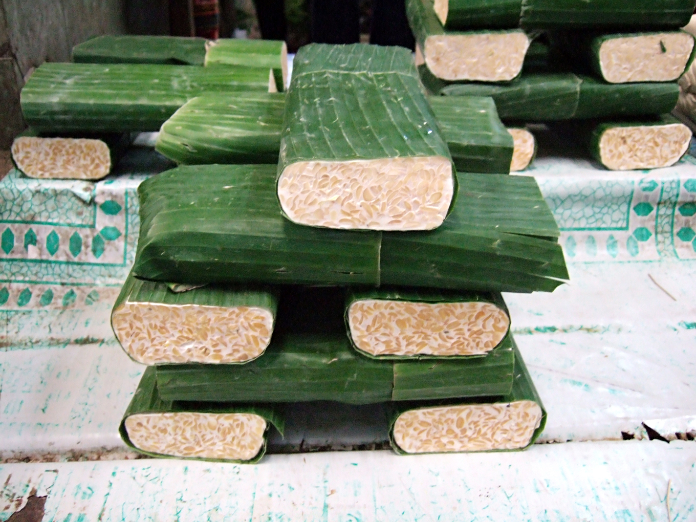 Fresh tempeh at the market, Jakarta, Indonesia